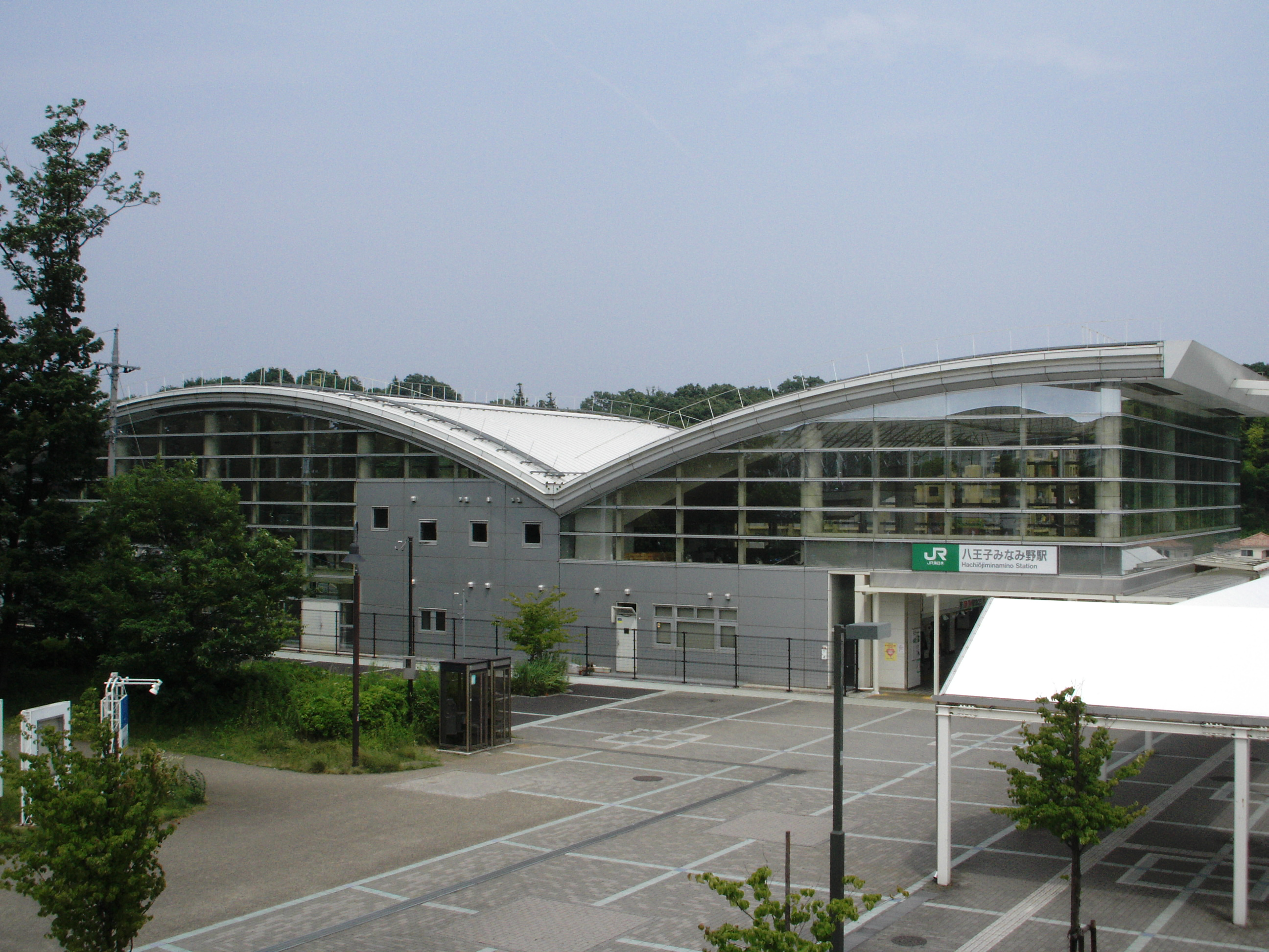 The west side of Hachiōji-Minamino Station on the Yokohama Line in Tokyo, Japan